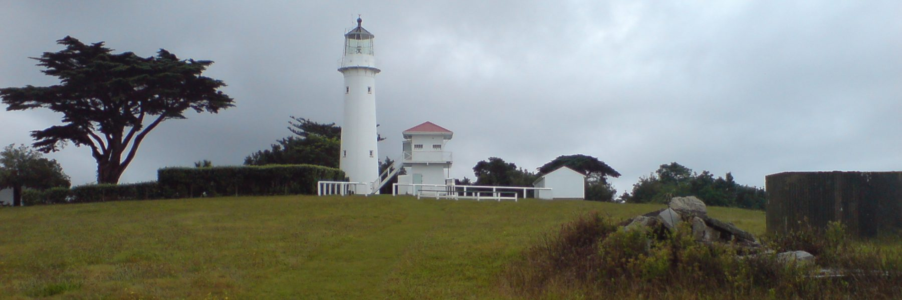 Looking northwest at the Tiritiri Matangi Lighthouse north of Auckland, New Zealand. Coordinates could be minimally off.